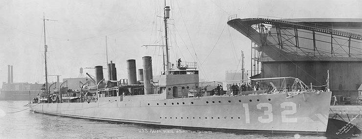 USS Aaron Ward (DD-132) at Boston, Massachusetts. Crosby Collection.